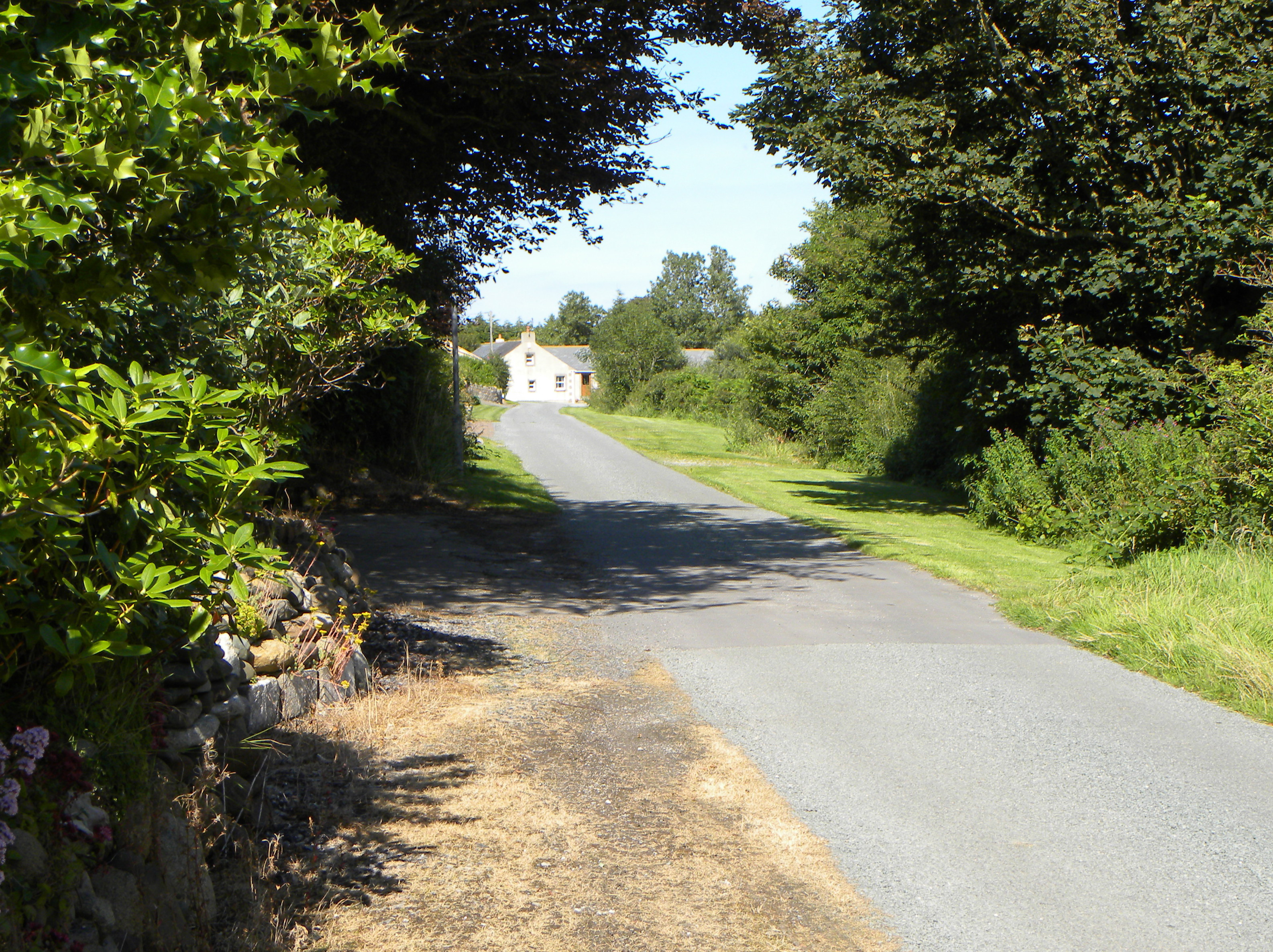 A view towards the end of the roadway